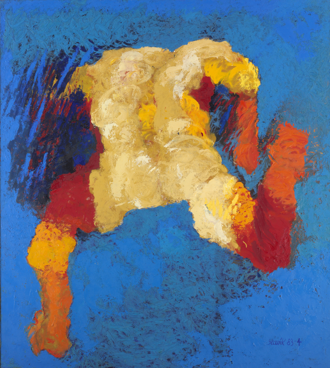 Last minute escape from the rope and in general, oil on canvas, 145 x 150 cm (1983-84)